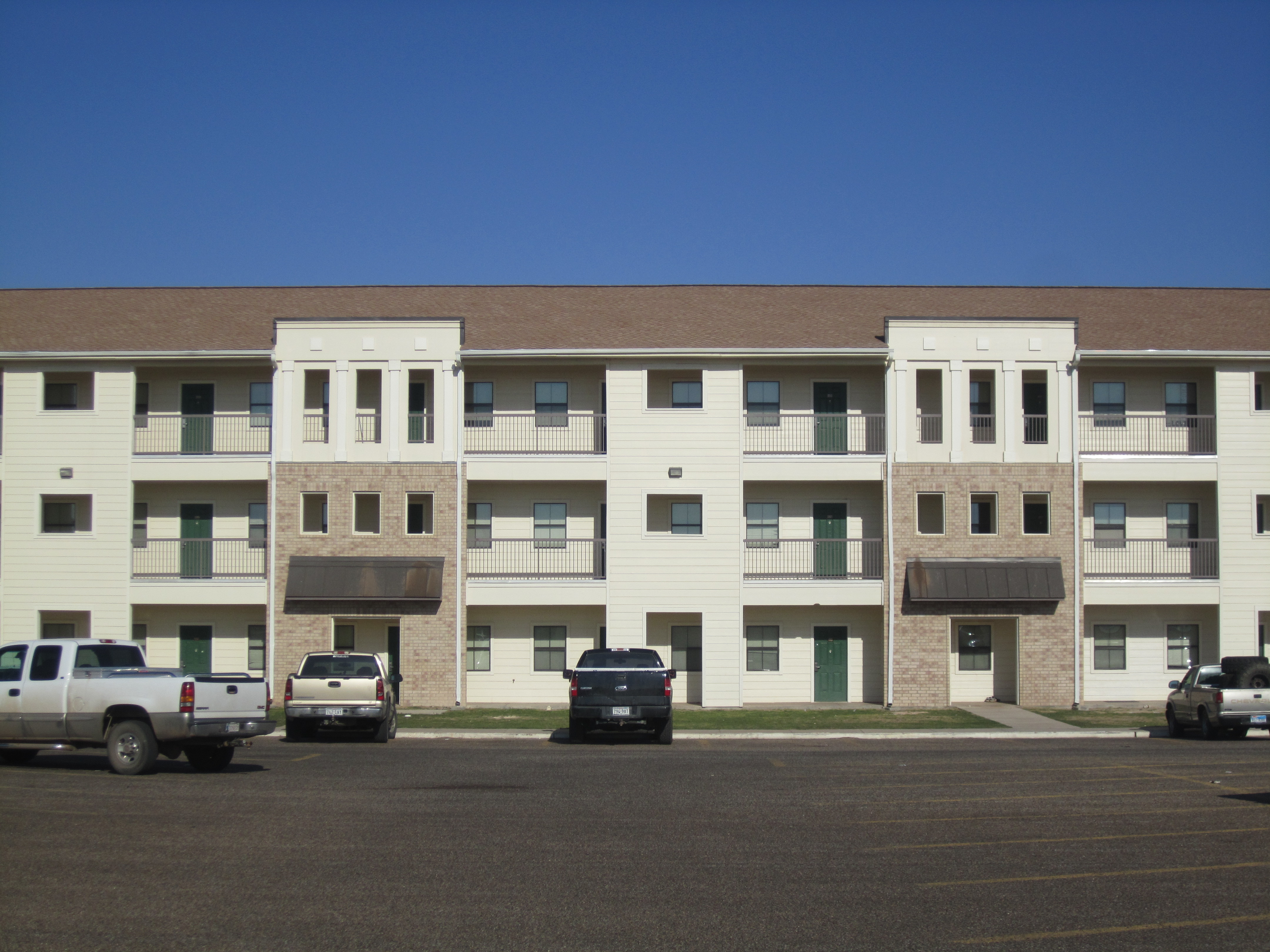 I took photo with Canon camera in Snyder, TX.